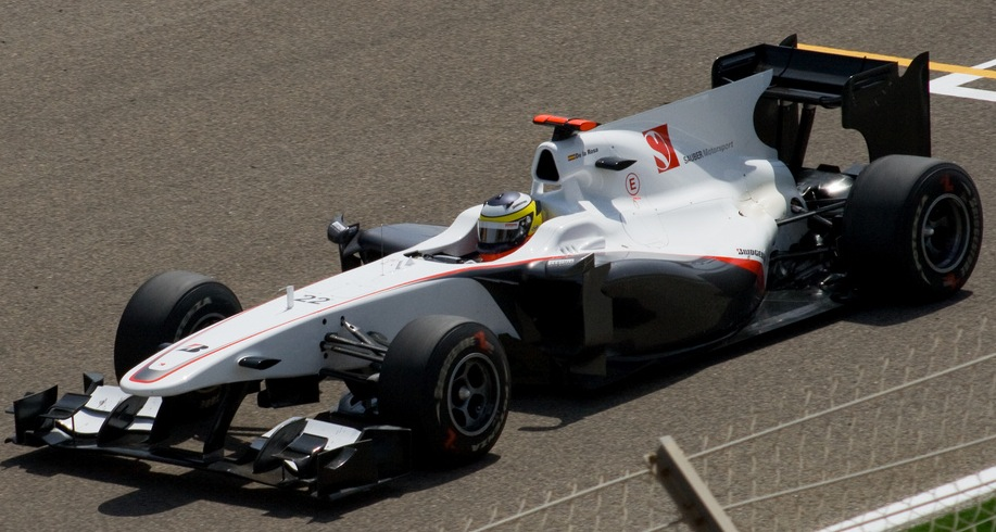 Sauber BMW in Barhein 2010